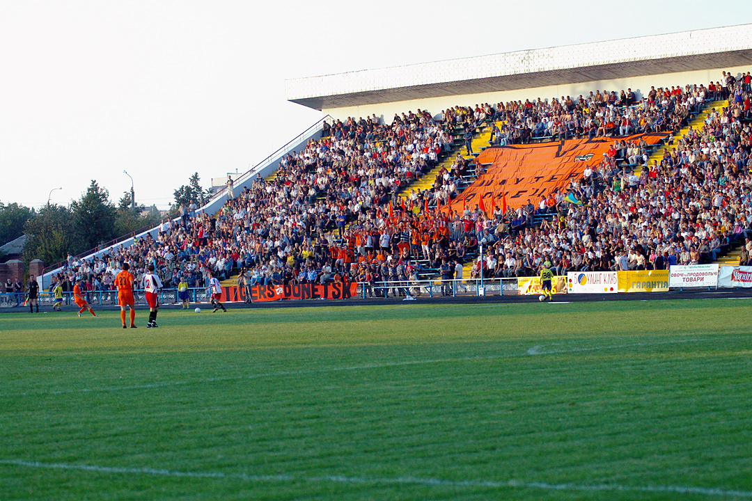 Yuri Gagarin Stadium in Chernihiv, Ukraine, during the game Desna vs Shakhtar D